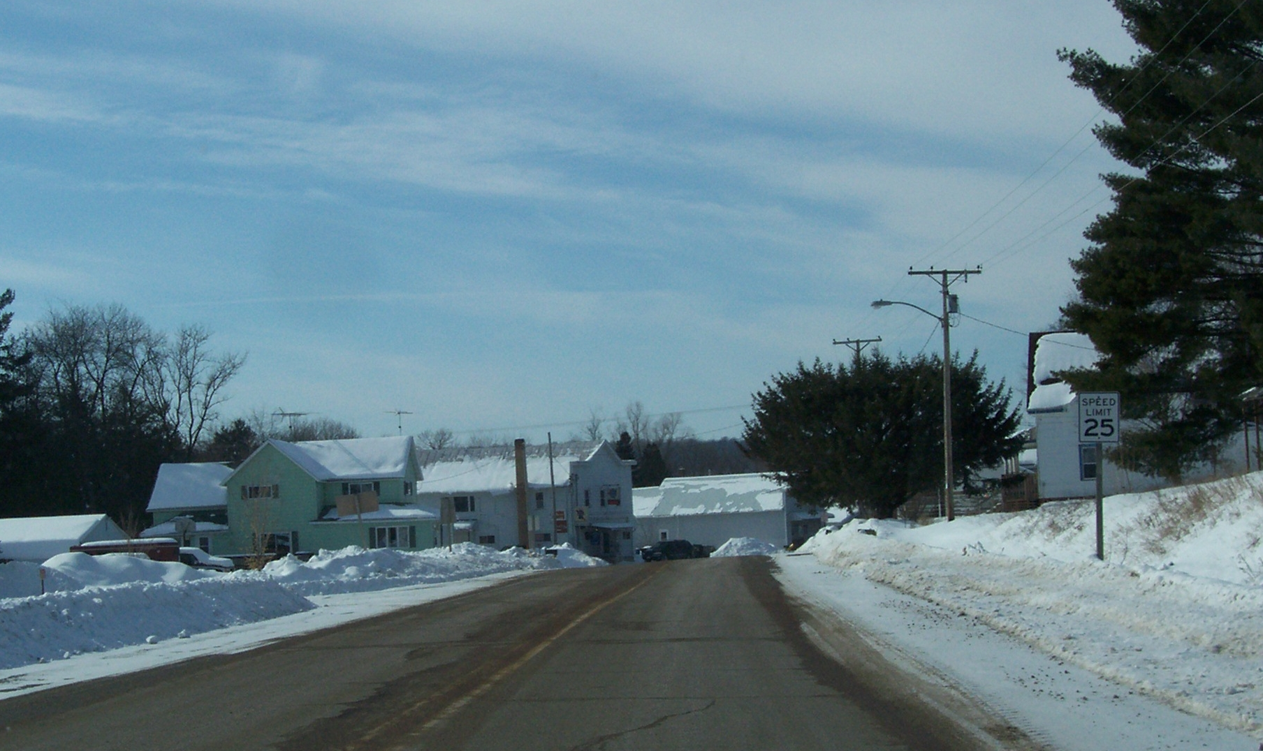 Looking west at the unincorporated community of Pella, Wisconsin in the town of Pella, Wisconsin. Taken while traveling west on County Highway D.